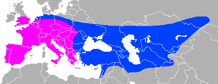 Approximate Neanderthal range, with modern national borders for orientation. Purple: pre-Neanderthal, early Neanderthal (450kya-130 kya), blue: classic Neanderthal, late Neanderthal (130kya-40kya). Compromise between: File:Range of Neanderthals.png, File:Map of classic Neandertal fossil sites (hr-at).jpg, File:Map of pre-Neandertal fossil sites.jpg Sicily is included because it was connected to the European mainland (as was Great Britain), other Mediterranean islands are not included as there is no positive evidence that Neanderthals were present there, nor that they did cross any significant bodies of water.